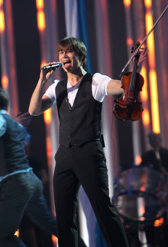 Alexander Rybak at The Nobel Peace Price Concert 2009